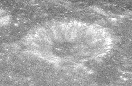 Oblique view of Born, on the moon, facing west.